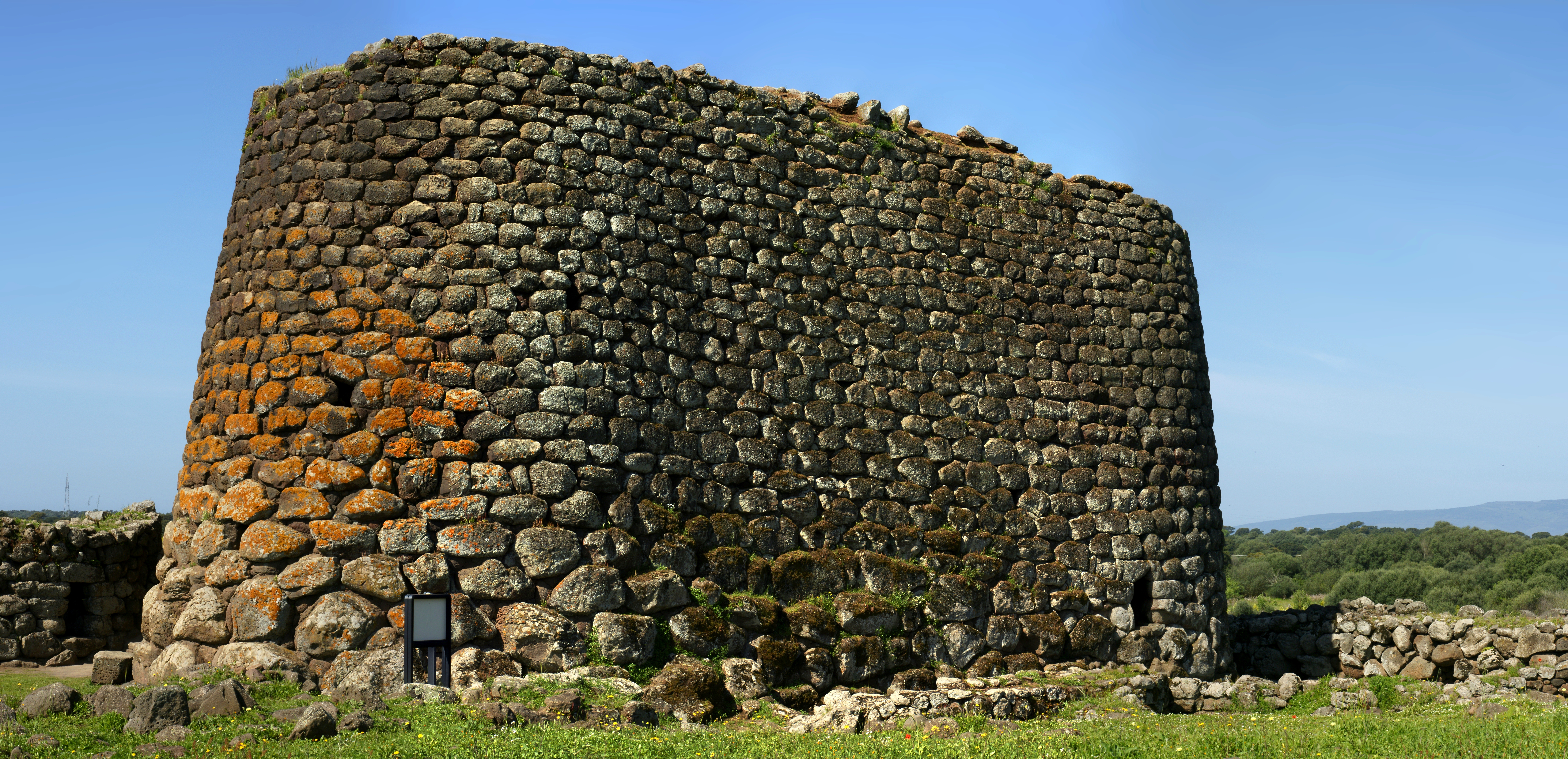 Nuraghe Losa, Sardinia, Italy